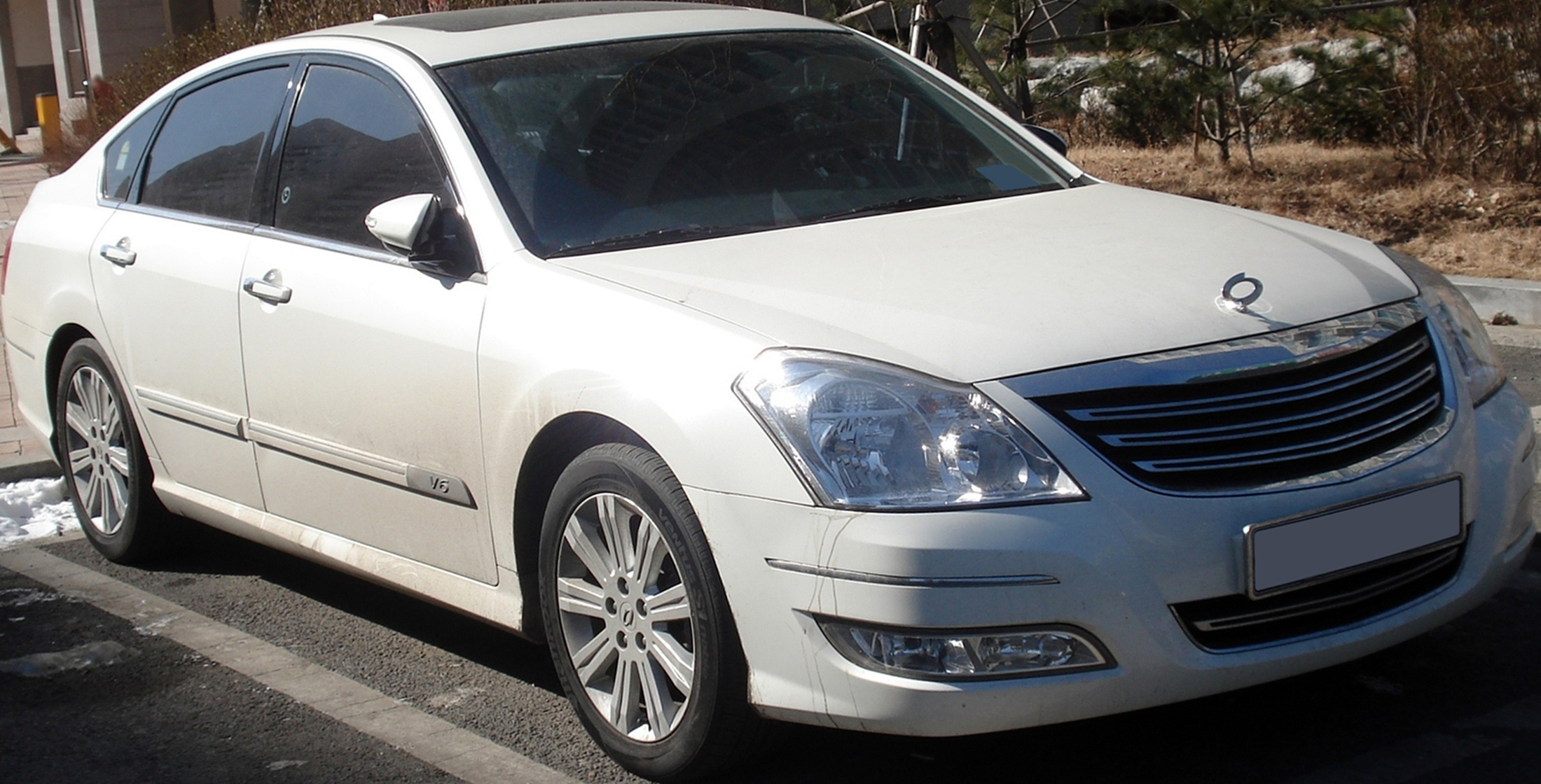 Renault Samsung SM7 New Art